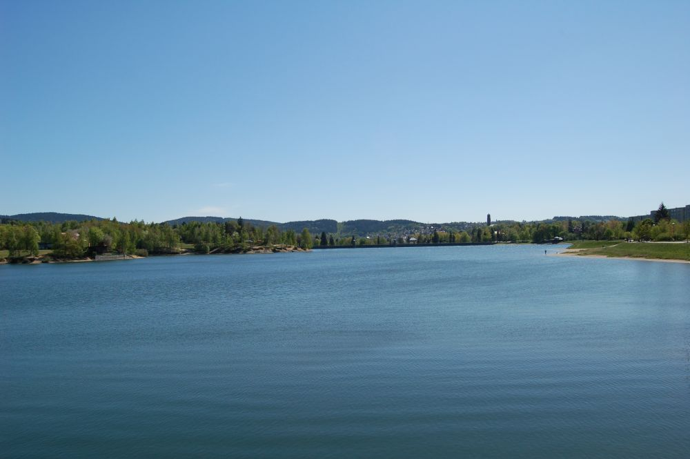 Reservoir Mšeno in Jablonec nad Nisou; Czechia